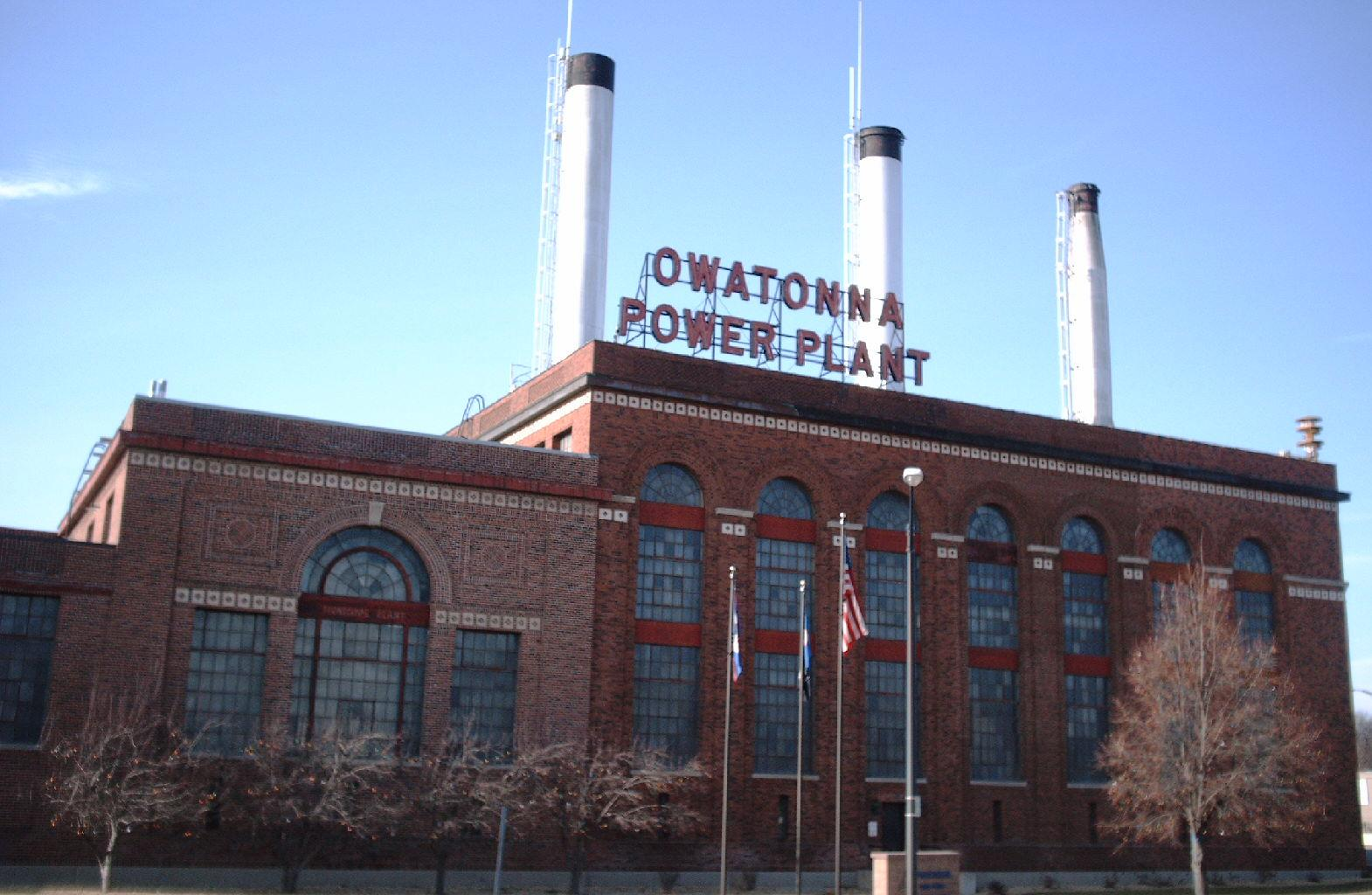 Photo I took late 2006 of the Power Plant in Owatonna, Minnesota. CC & GFDL.